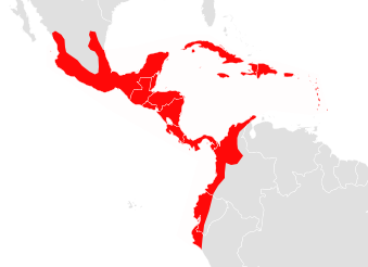 Distribution of Artibeus jamaicensis